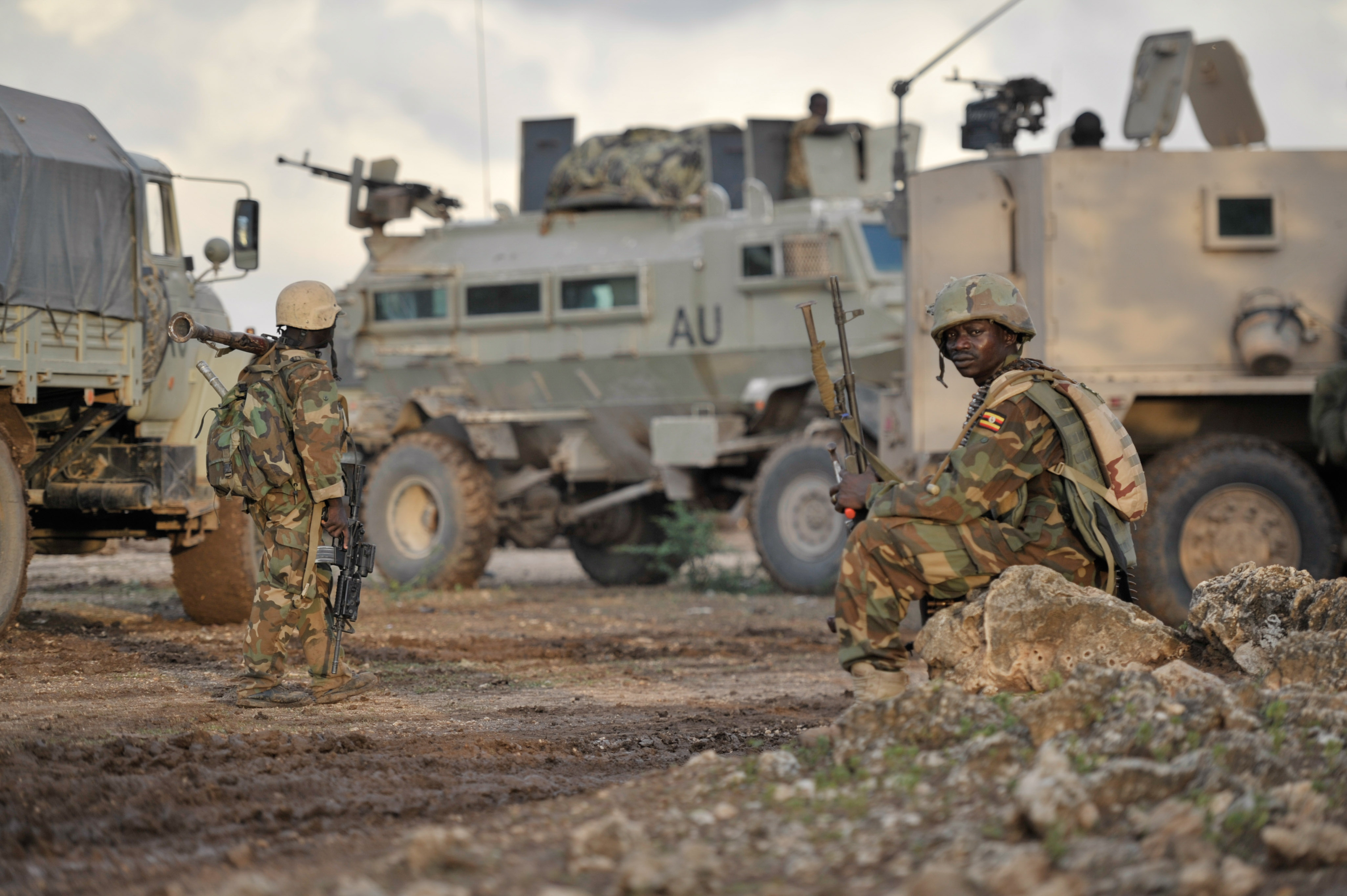 Ugandan soldiers, as part of the African Union Mission in Somalia, rest in the town of Kurtunwaarey in the Lower Shabelle region of Somalia after having liberated it from Al Shabab on August 31. AMISOM Photo / Tobin Jones